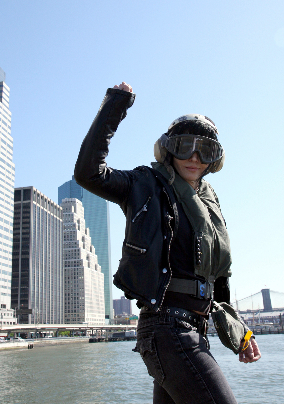 NEW YORK (May 19, 2009) Joan Jett, lead singer of Joan Jett and the Black Hearts, prepares to board a Navy helicopter en route to the amphibious assault ship USS Iwo Jima (LHD 7) for a tour of the ship during Fleet Week New York City 2009. Approximately 3,000 Sailors, Marines and Coast Guardsmen will participate in the 22nd commemoration of Fleet Week New York. (U.S. Navy photo by Mass Communication Specialist 1st Class Laurie Wood/Released)